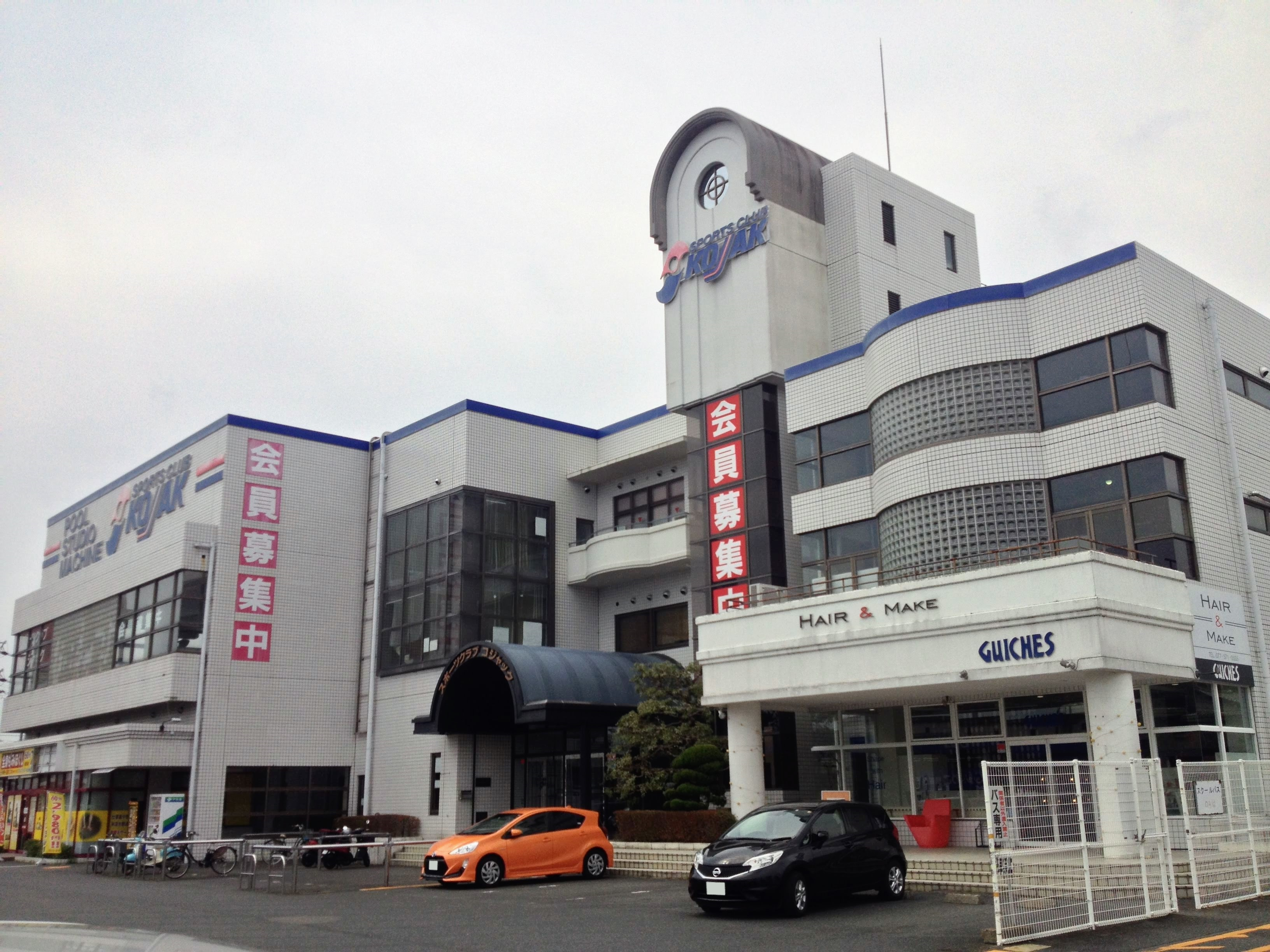 Sports Club KOJAK in Otsu, Shiga Prefecture, Japan